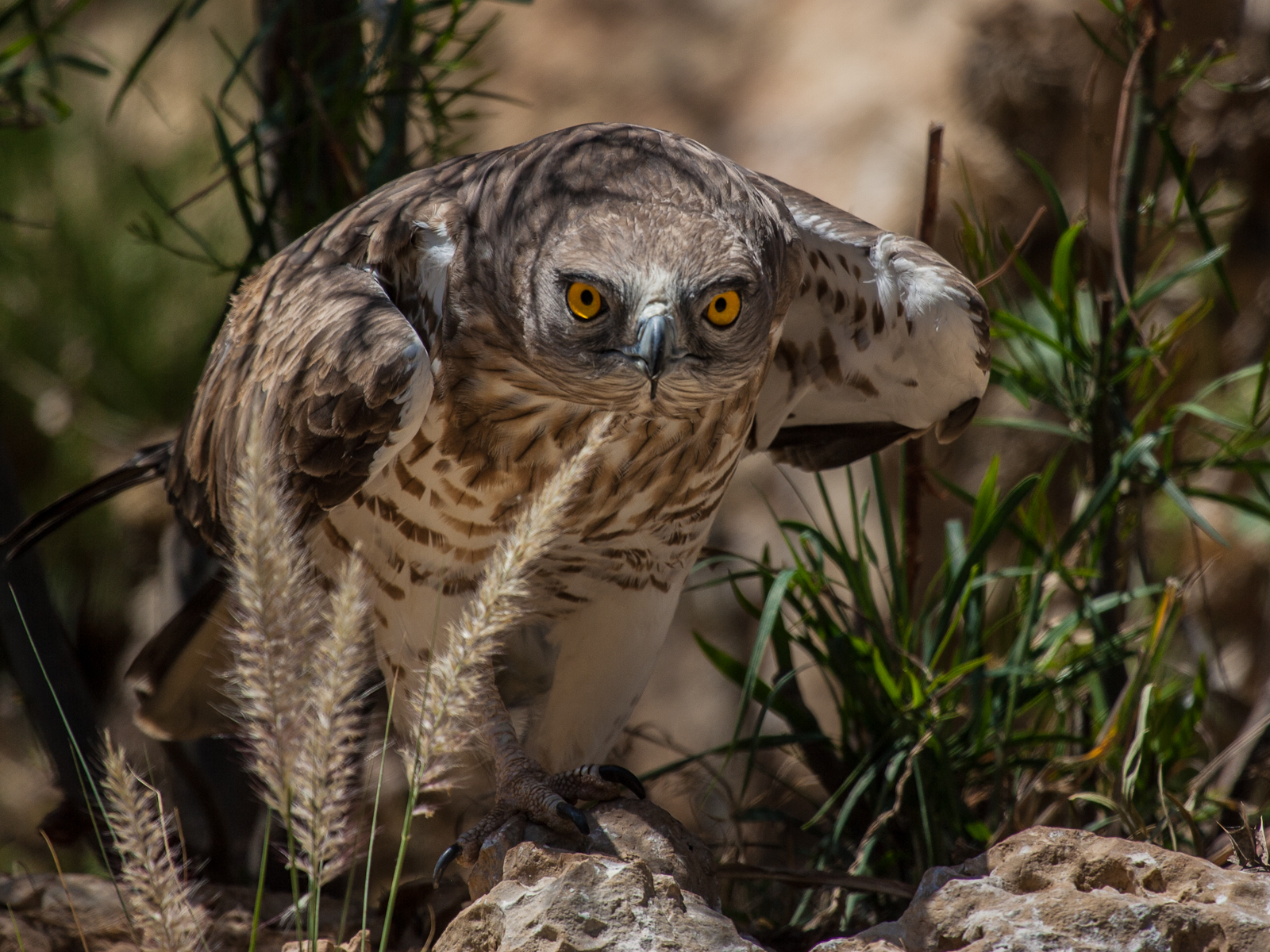 Short-toed eagle in Jerusalem biblical zoo